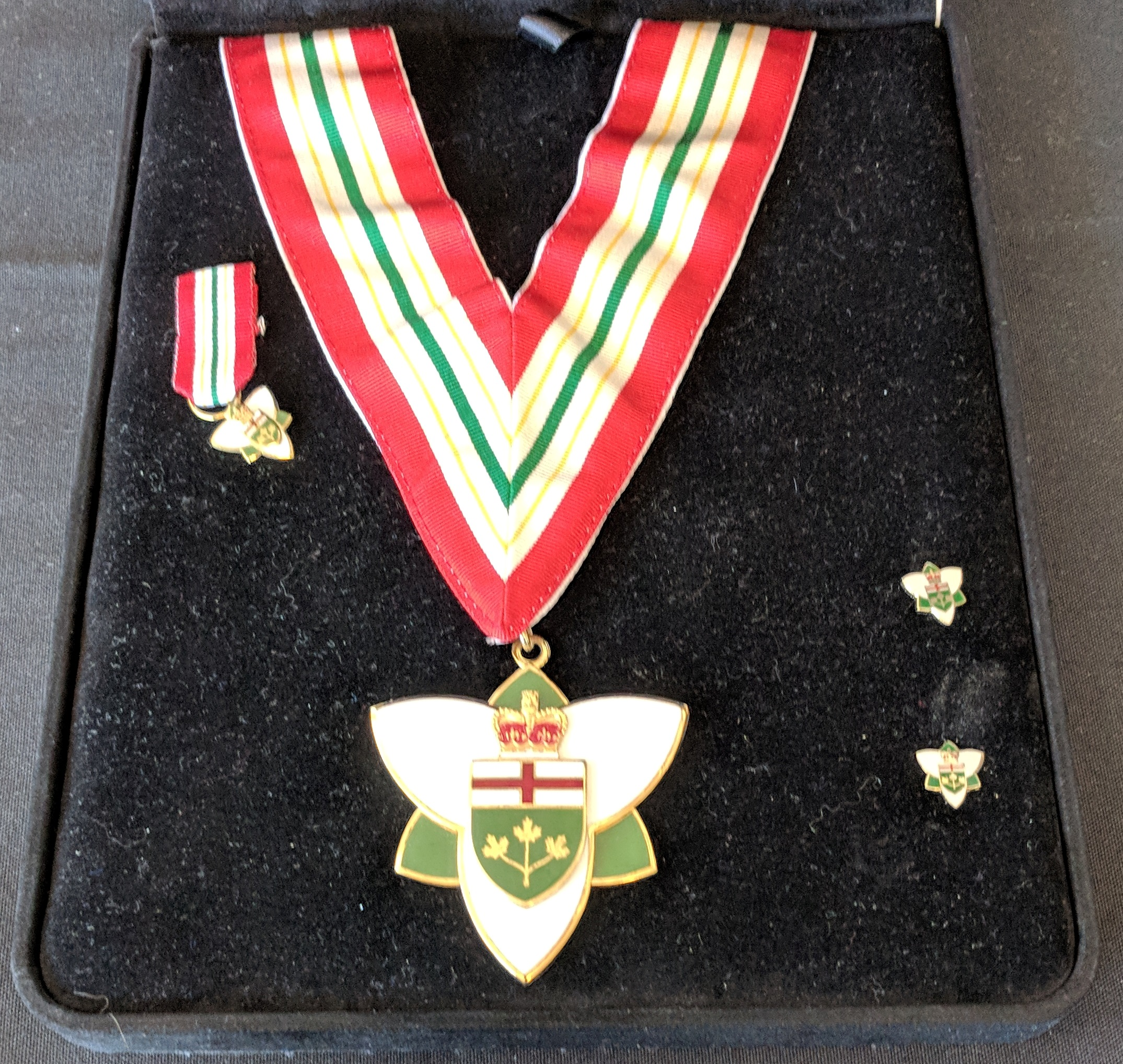 Presentation case containing a full size medal and ribbon for the Order of Ontario, a miniature version of the insignia, and two lapel pins with the insignia.